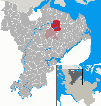 This map shows the area of the village (municipality) Sörup in the Kreis (district) Schleswig-Flensburg, Schleswig-Holstein, Germany.